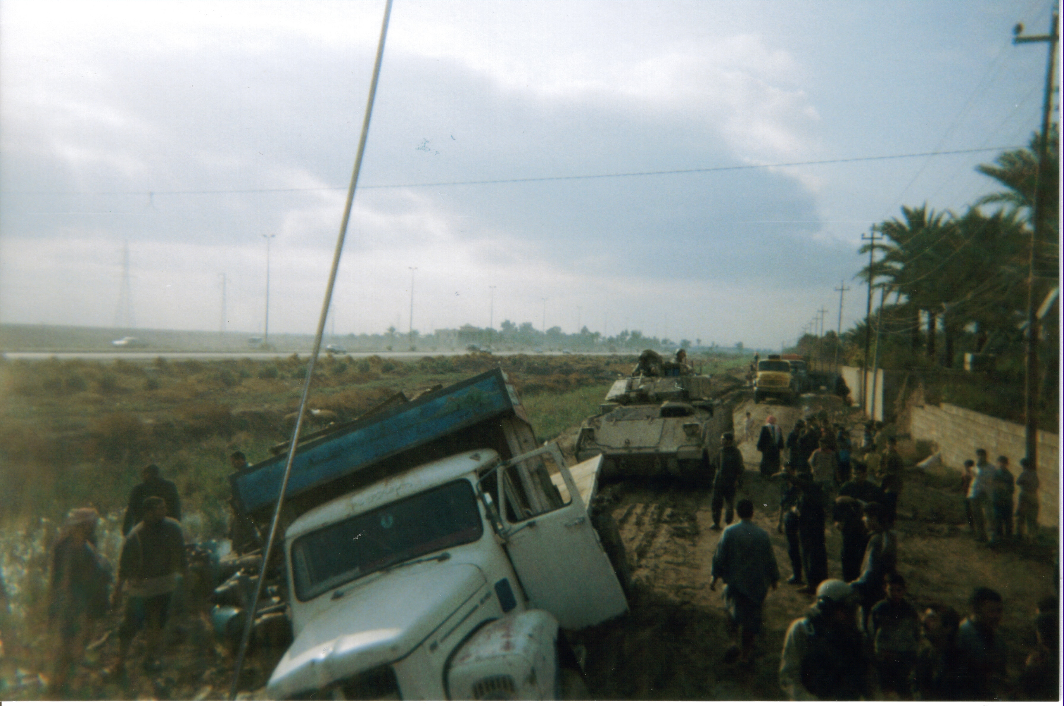 photo taken by SGT Richard J. Miles during winter 2003/2004 in Ar Ramadi, Iraq. Slick mud has caused two of this vehicle's tires to slide off the road. Soldiers of Task Force Iron Ranger can be seen here preparing to help out the owner by towing the vehicle back on the road with a tow cable attached to a Bradley Fighting Vehicle. Highway 10 can be seen in the background.